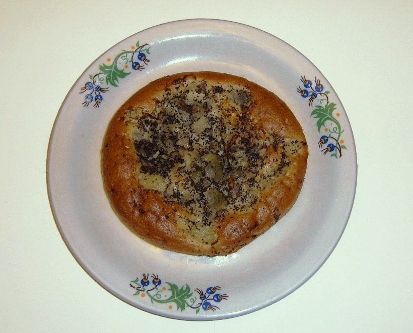 Polish onion cake (wheat), typical in Lublin Voivodeship (example from Zamość town)